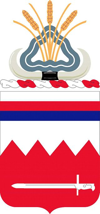 "Shield: Red and white are the colors for the Corps of Engineers. The four red points represent the battle honors awarded the unit for service during World War II; they also represent the teeth of a saw, an item of Engineer equipment, which is used with the bayonet to indicate the engineering-combat function of the Battalion. The three stripes at the top simulate the stripes in the Flag of the Territory of Hawaii, where the organization was activated. They also allude to the Meritorious Unit, Philippine Presidential and Korean Republic Presidential citations awarded the Battalion; the blue stripe symbolizes service in Korea." "Crest: Service in the Philippines, WWII and in the Korean War is referred to by the horns of the water buffalo, which is indigenous to those areas. The rice stalks allude to service in Vietnam, the three stalks referring to the three decorations: the Meritorious Unit Commendation, Vietnamese Cross of Gallantry with Palm and the Vietnamese Civil Actions Medal awarded the Battalion. The blue water symbol alludes to the waters of the Pacific, the Battalion's home area."